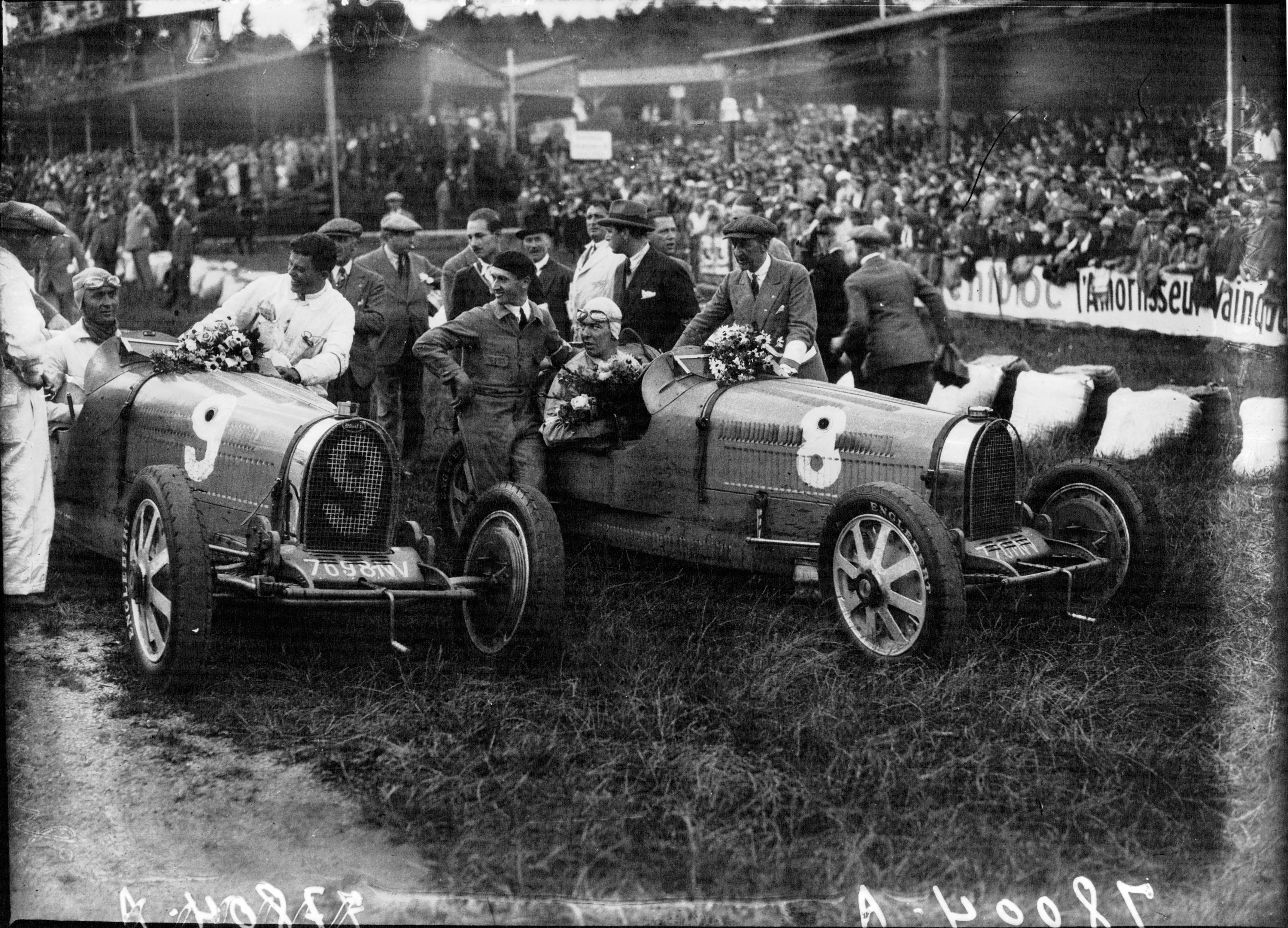 Louis Chiron (seated in left car #9) and Guy Bouriat at the 1930 Belgian Grand Prix. Mechanic Lucien Wurmser mounting flowers on Chirons car (to the right of Chiron)